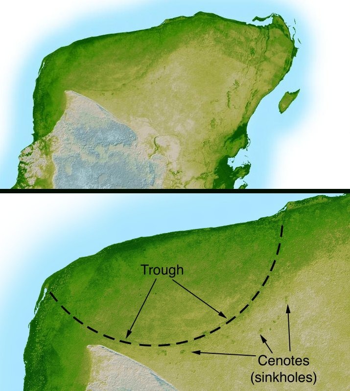 This shaded relief image of Mexico's Yucatan Peninsula show a subtle, but unmistakable, indication of the Chicxulub impact crater. Most scientists now agree that this impact was the cause of the Cretatious-Tertiary Extinction, the event approximately 66 million years ago that marked the sudden extinction of the dinosaurs as well as the majority of life then on Earth.